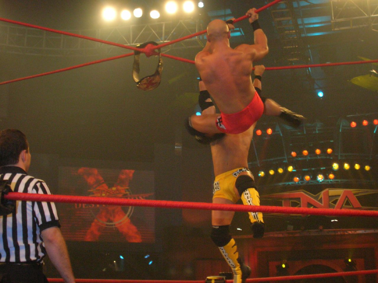 High-flying, high risk moves are a centerpiece of the X Division. A.J. Styles [yellow trunks] and Christopher Daniels [red trunks] during an Ultimate X match in 2006. AJ Styles and Christopher Daniels in an Ultimate X match.